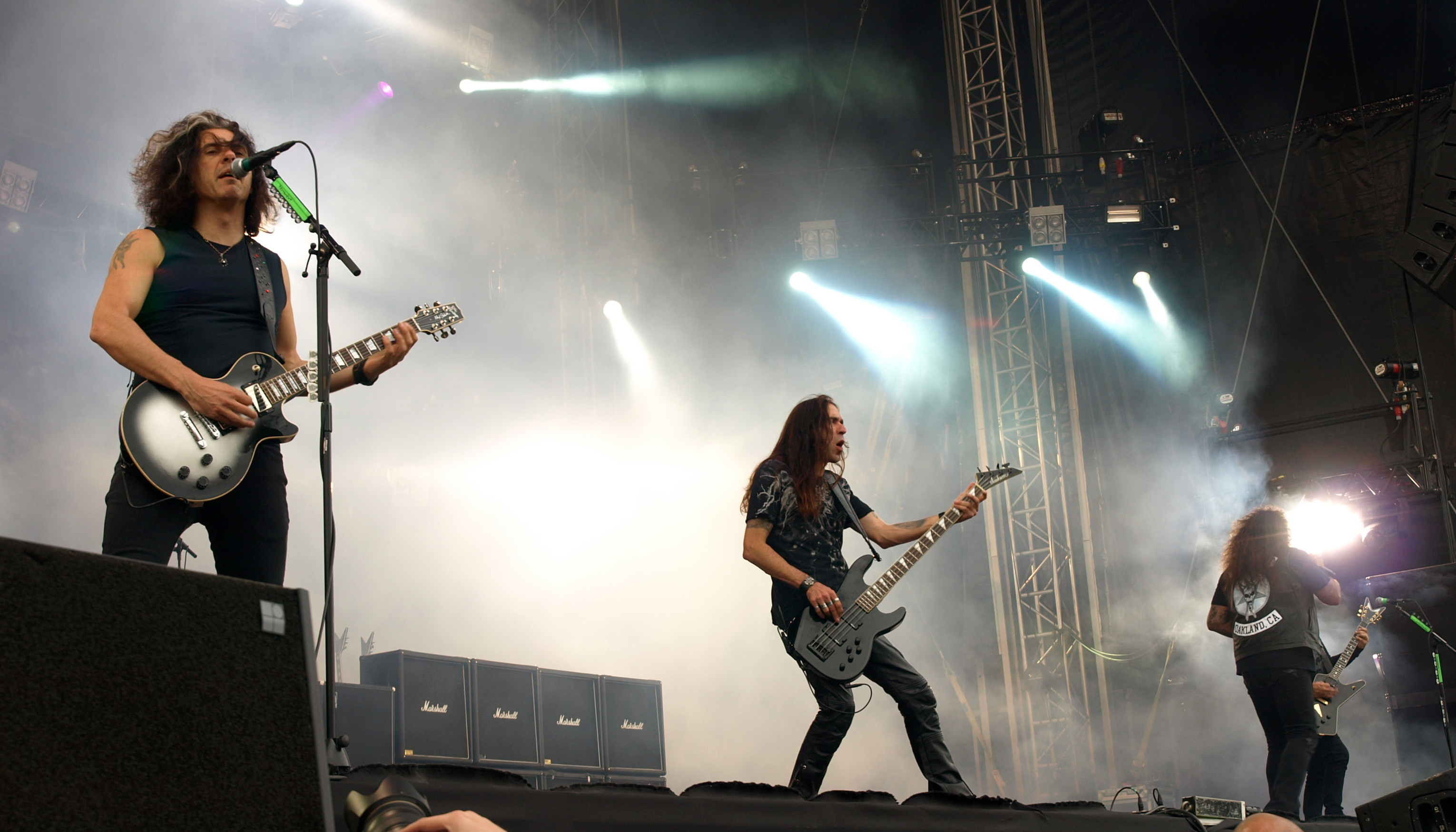 US-American thrash metal band Testament live at Tuska Open Air 2013